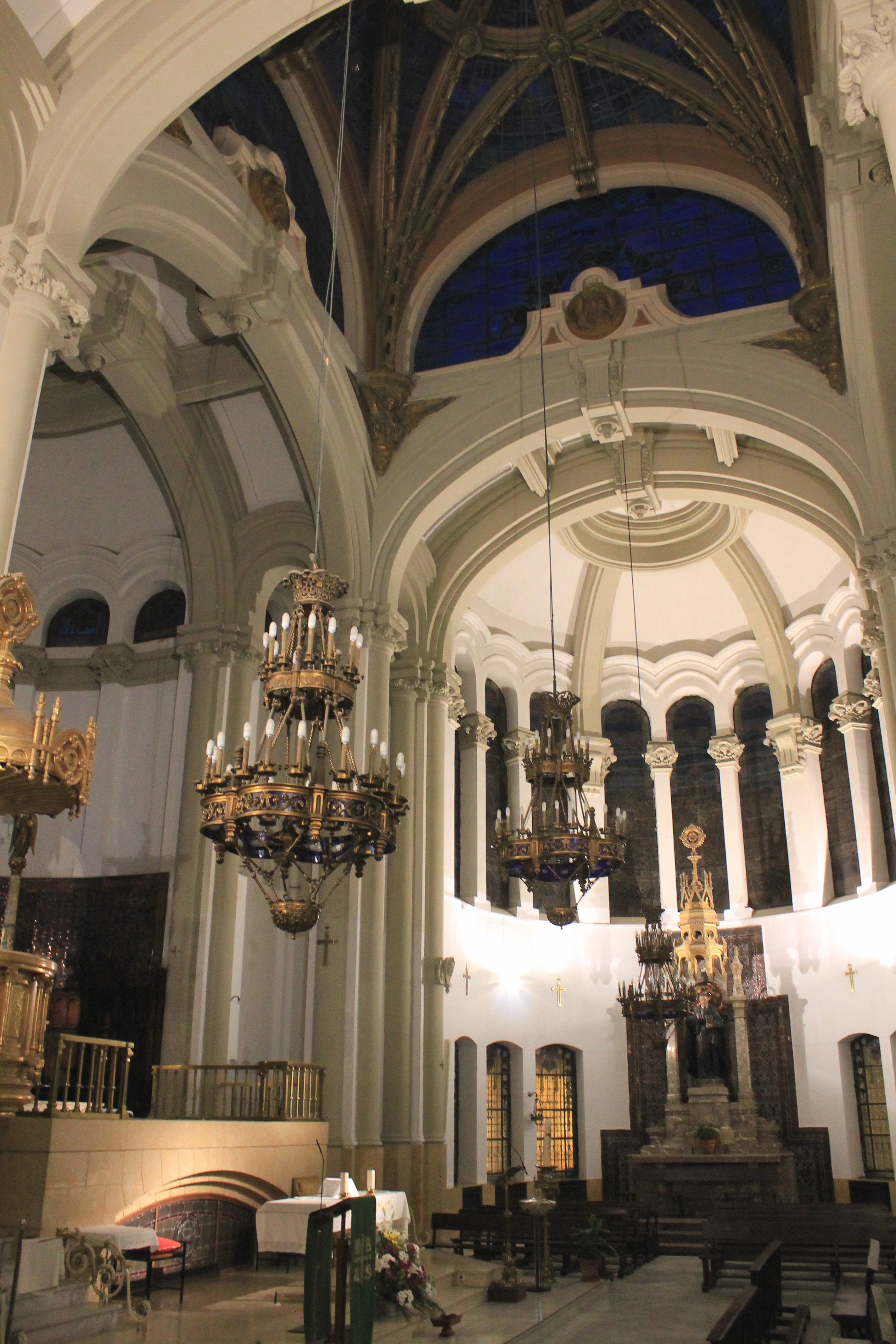 Interior of Iglesia de Santa María del Silencio (a church) in Madrid (Spain).